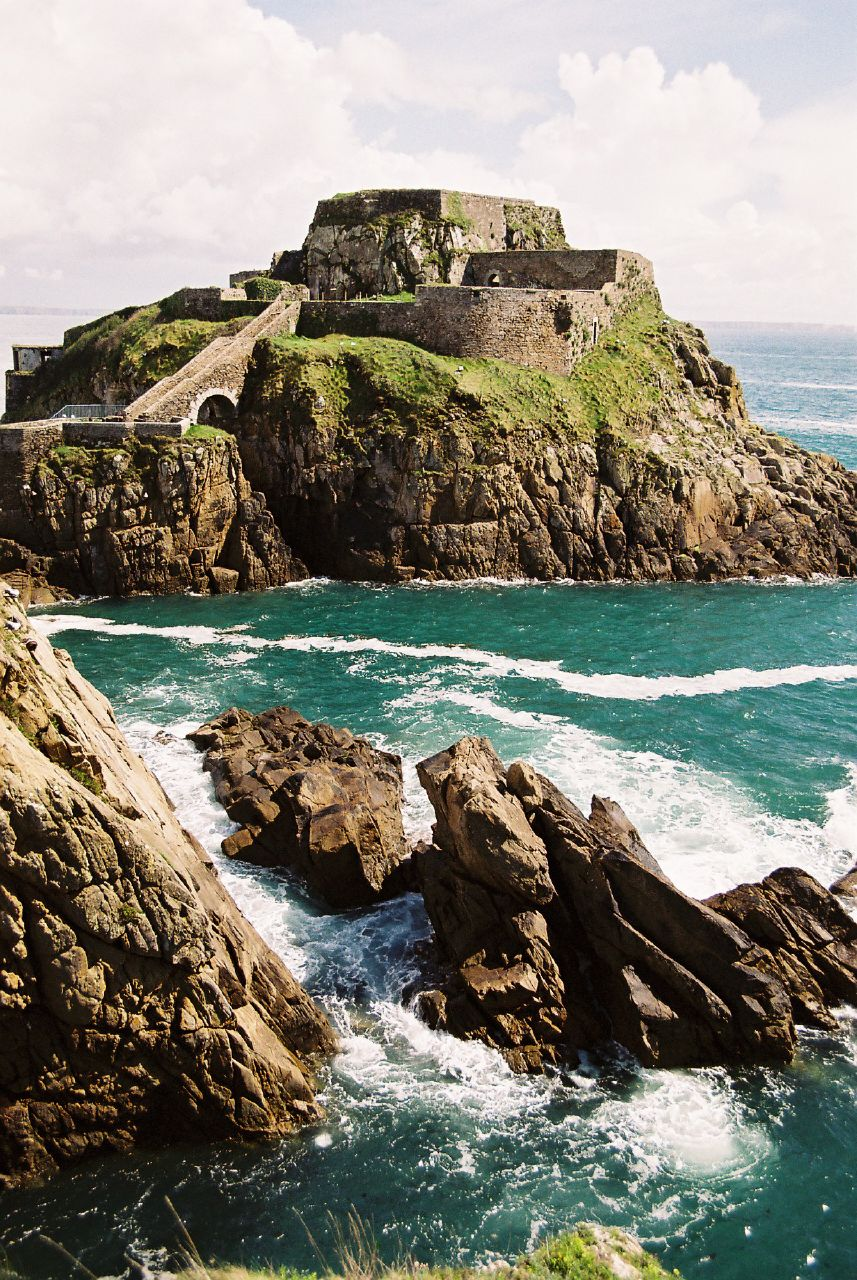 This fortified place at Bertheaume has guarded the entrace to the bay of Brest since the time of Vauban who was commandered by King Louis XIV to build fortifications to defend France's major military harbours.Bertheaume Fort